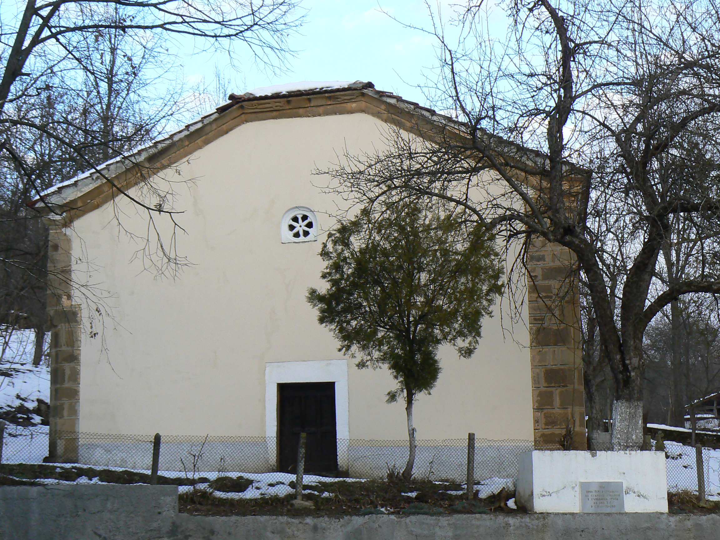 The church of village Kalugerovo, Sofia District, Bulgaria